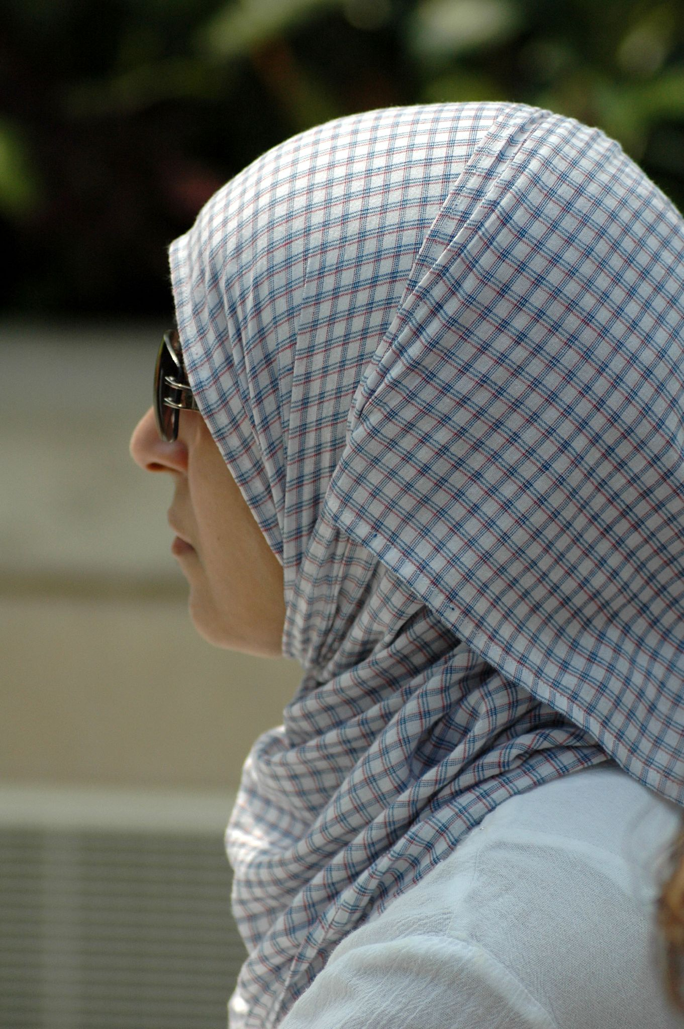 Woman wearing a hijab (Muslim veil or headscarf) at the 2006 Arabic Arts Festival in Liverpool.